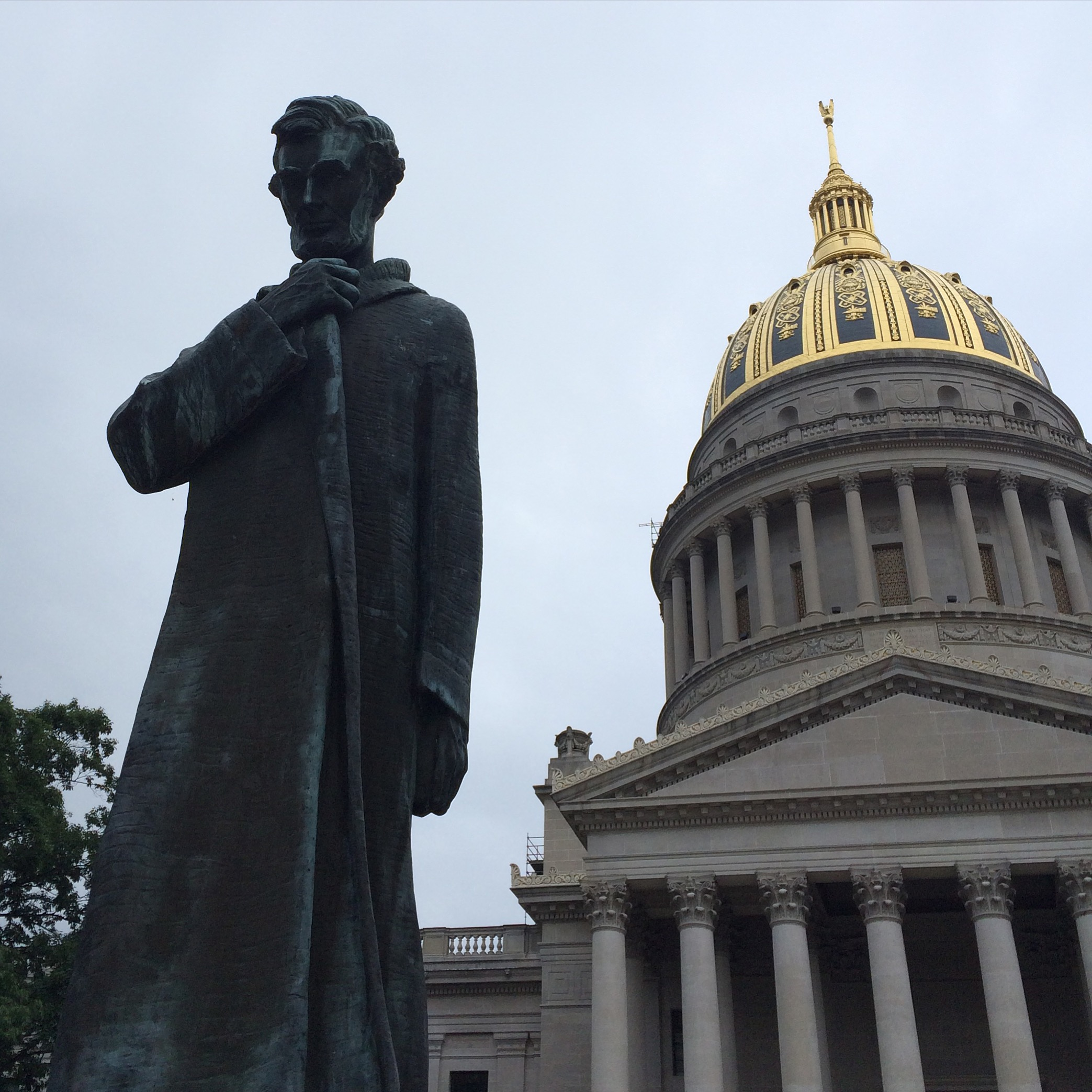 Abraham Lincoln Statute at WV Capitol